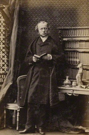 Portrait of Edward John Tilt (1815–1893), English physician.